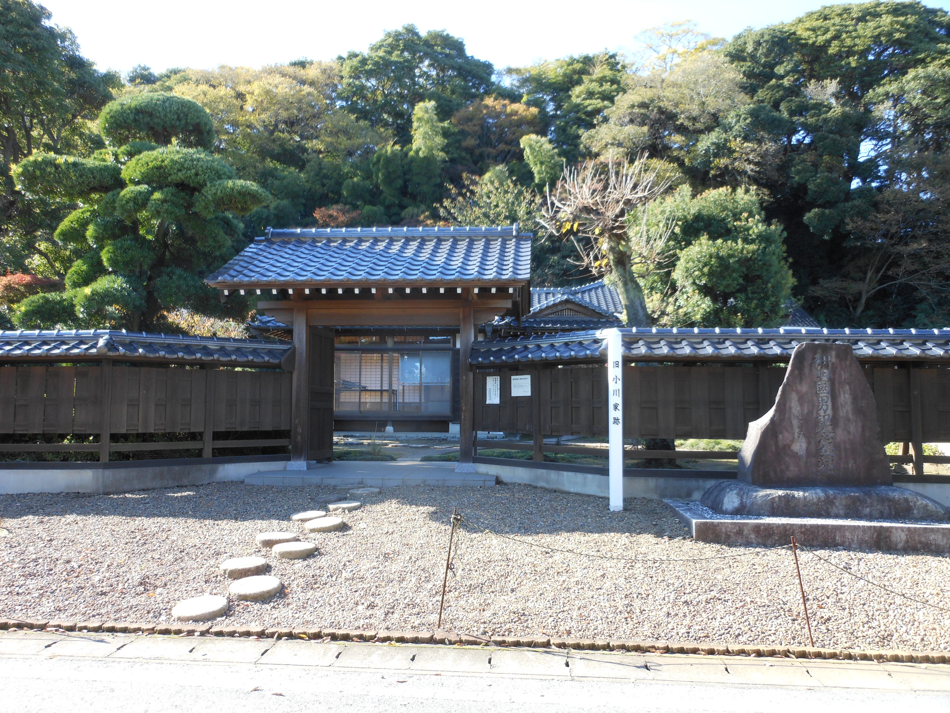 This is the Kunio Yanagita Memorial Park in Fukawa, Tone, Ibaraki, Japan.